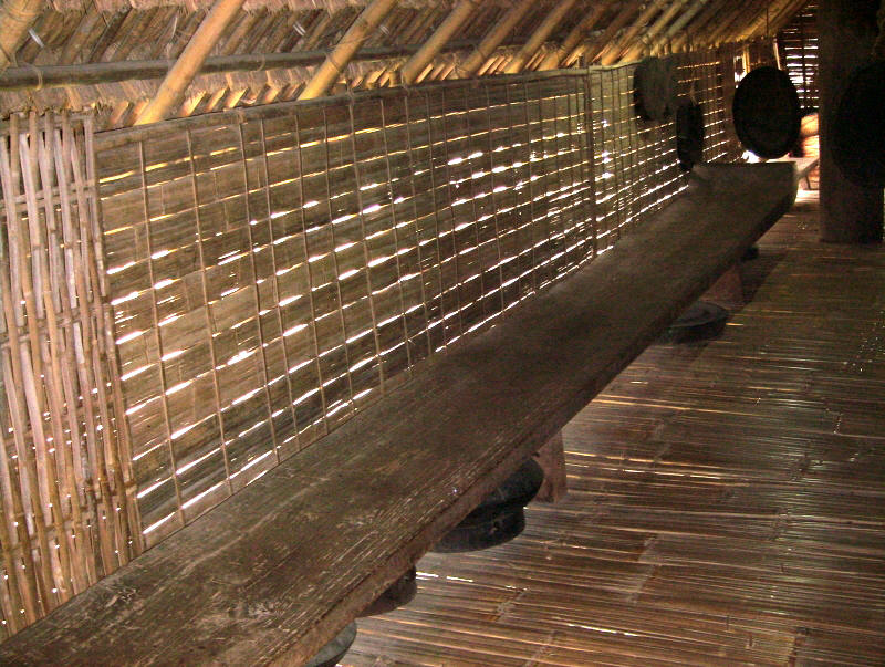 Bamboo wall and floor and a bench in the long house of E De peple in Central Highlands, Vietnam